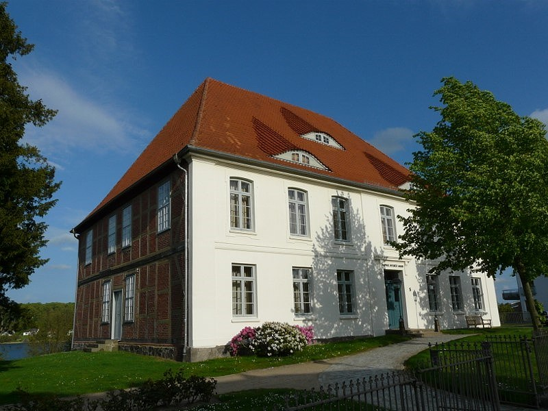 The A.Paul Weber House (Museum)